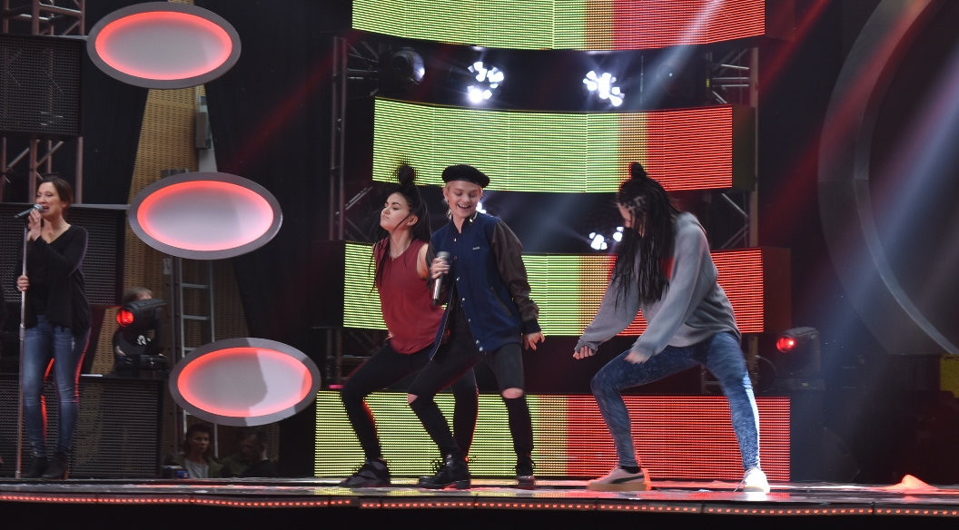 Polish singer Margaret during rehearsals for Polish National Final of ESC 2016